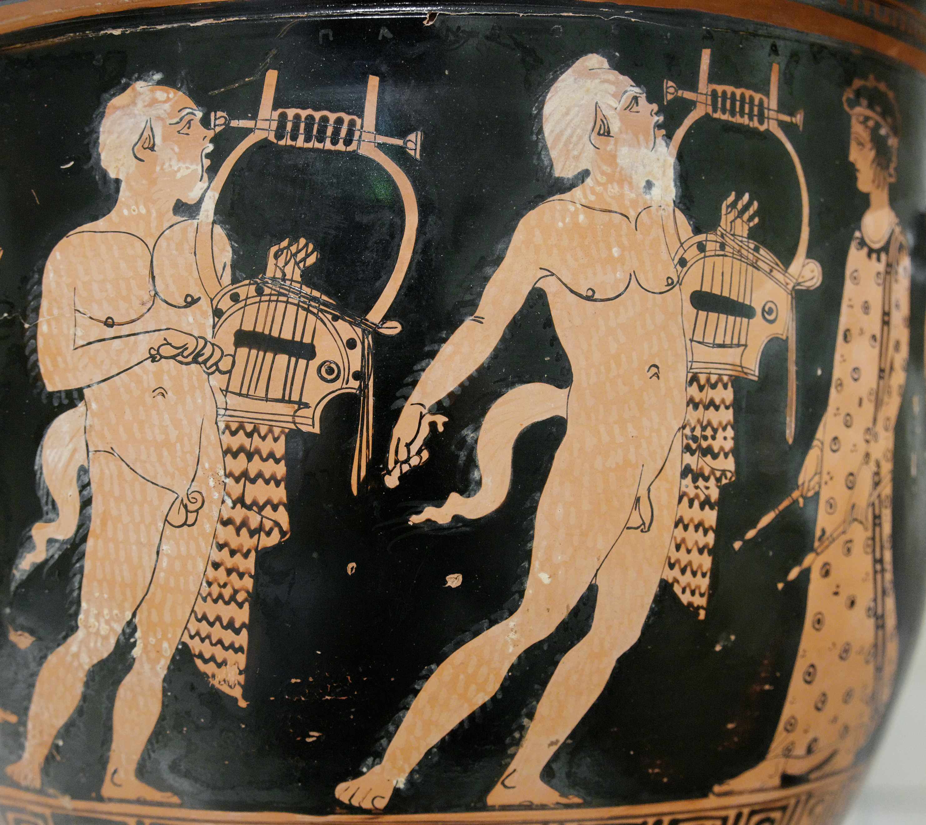 Singers at the Panathenaia: Papposilenoi holding lyres walking towards a flute-player. Side A of an Attic red-figure bell-krater.